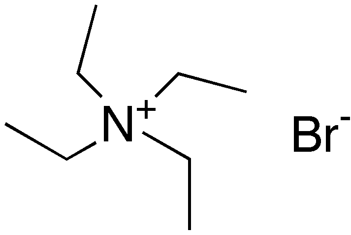 chemical structure of tetraethylammonium bromide